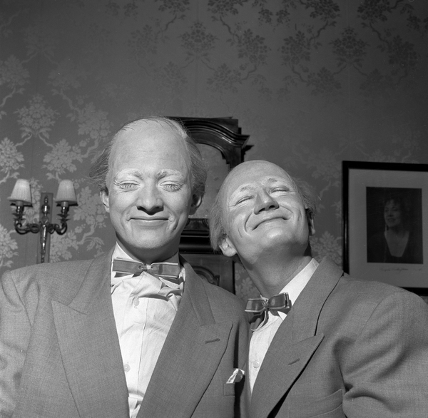 The actors Johnny Bergh and Tom Tellefsen during an performance at The National Theatre in Oslo, Norway.